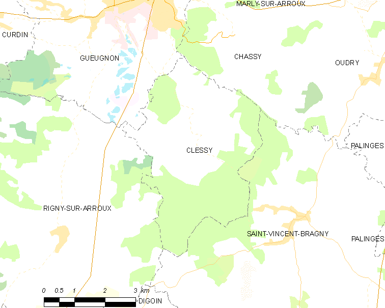 Map of French municipality